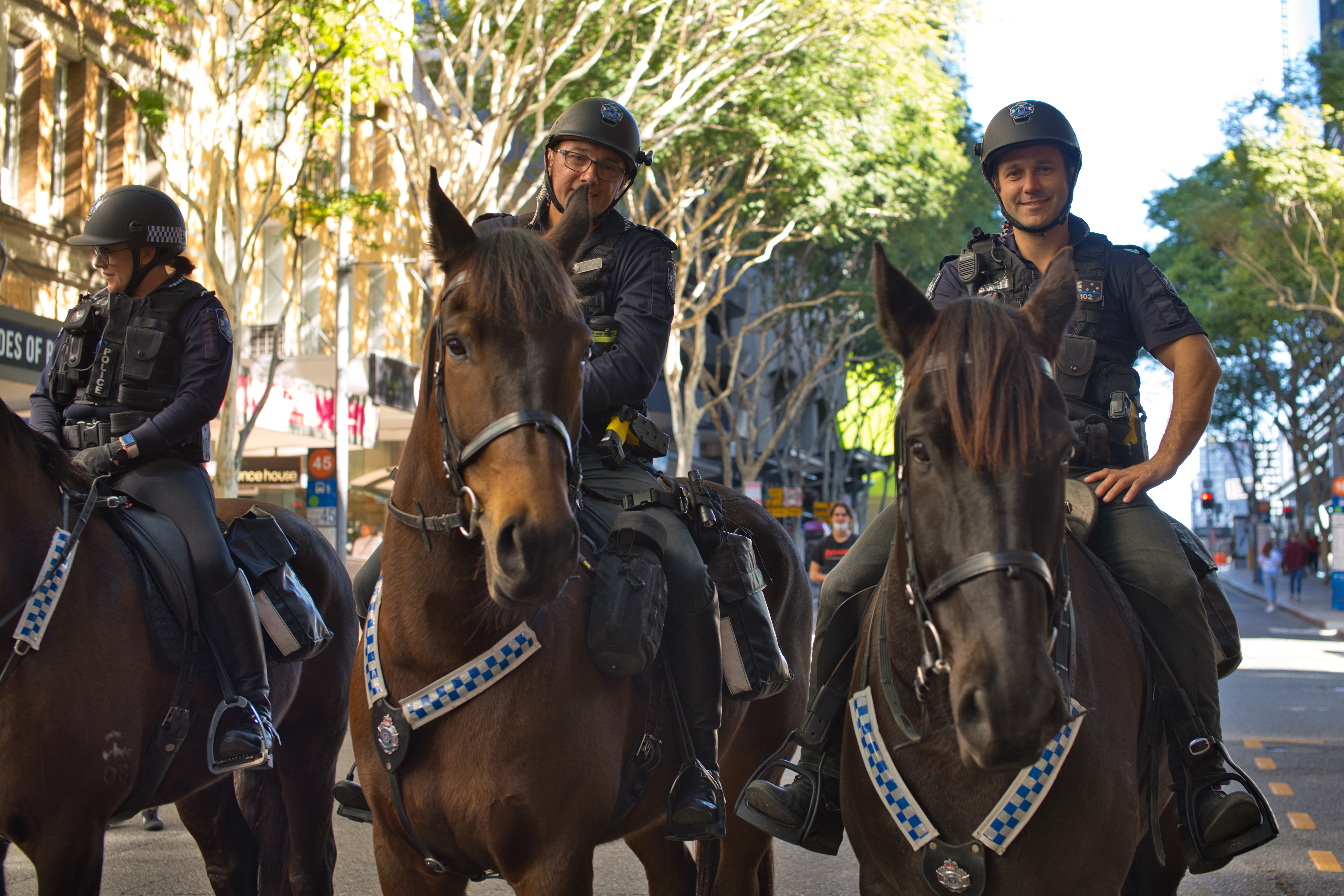 Mounted Queensland Police watching over an Anti-Racism Protest in Brisbane, Queensland, Australia. 6 June 2020. This protest was in support of Black Lives Matter and associated protests in the United States following the killing of George Floyd - but also highlighted parallel issues within Australia such as the deaths of Australia's aboriginal people while in police custody. Unlike the corresponding US protests, police presence at this event was generally low-key and seemed to focus on traffic control and welfare of protestors. Although the large gathering exceeded the maximum allowed by Queensland State Government during the COVID-19 pandemic, no action was taken.